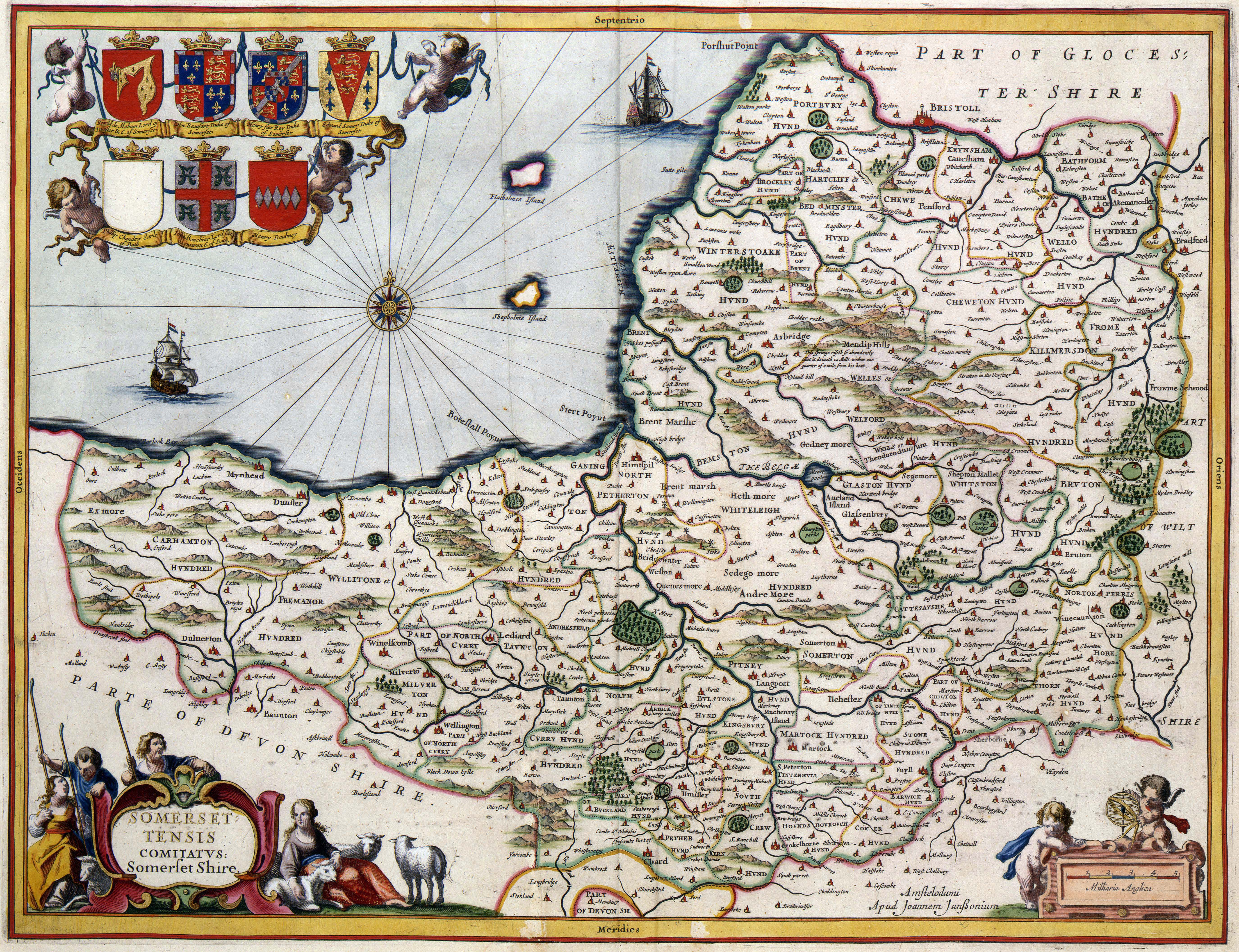 A map of Somerset drawn in 1646. In 1645, Joan Blaeu (1598-1673) successfully published an atlas of England. Blaeu based this atlas on the Theatre of the Empire of Great Britaine published by his English colleague John Speed (1552-1629) in 1611. Infected by this success, Blaeus neighbour, Jan Janssonius (1588-1664), copied the complete atlas. Janssonius published this pirate issue in 1646. This map of Somerset has been taken from Janssonius atlas. The map is enriched with allegorical figures and attributes representing the economical and cultural character of the province.